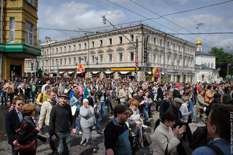 May 13, in Moscow, held a civil action under the title "Control Walking." The essence of the campaign was to show the power (to Vladimir Putin) that citizens can assemble peacefully, and where they want to go where they want. And no one can restrict civil liberties. The action was led by Russian writers. Thousands of people strolled along the boulevards of the capital.